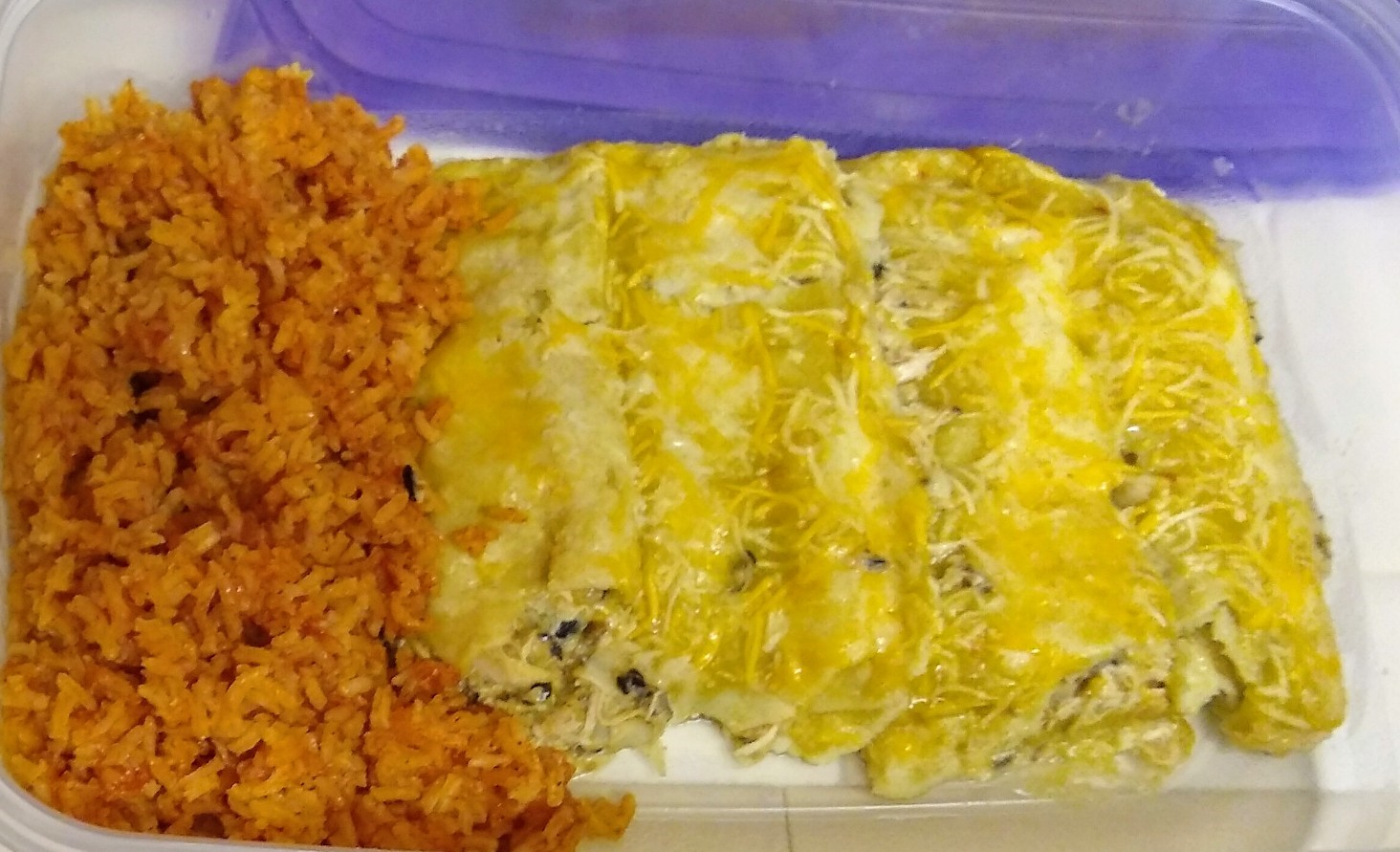 Homemade Verde (green) sauce enchiladas con (with) Rojo Arroz ( red rice)